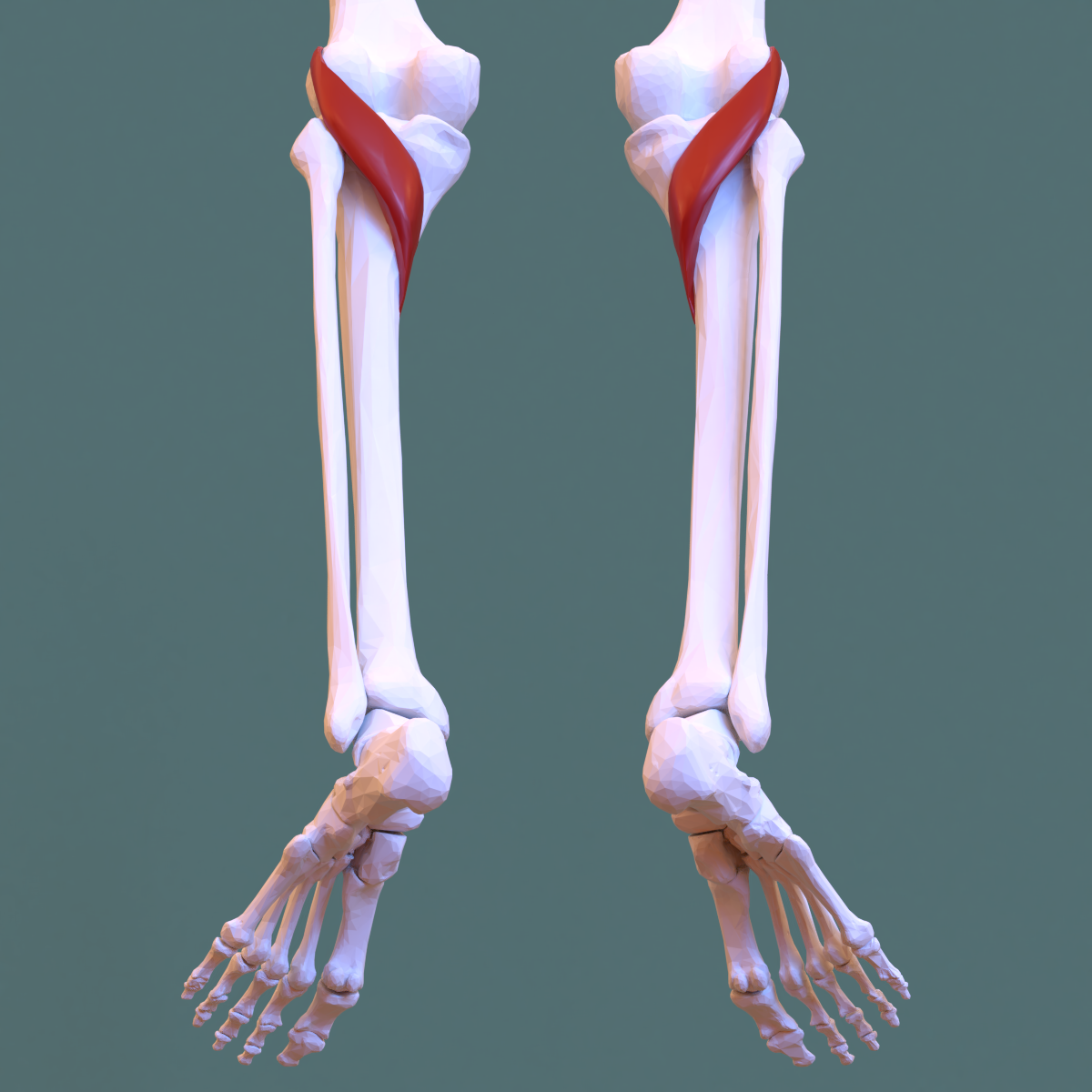 Popliteus muscle of the posterior compartment of leg.